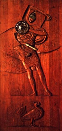 Oxaguian - sculpture of Carybé in wood, exibit in the Museum Afro-Brazilian, Salvador, Bahia, Brasil